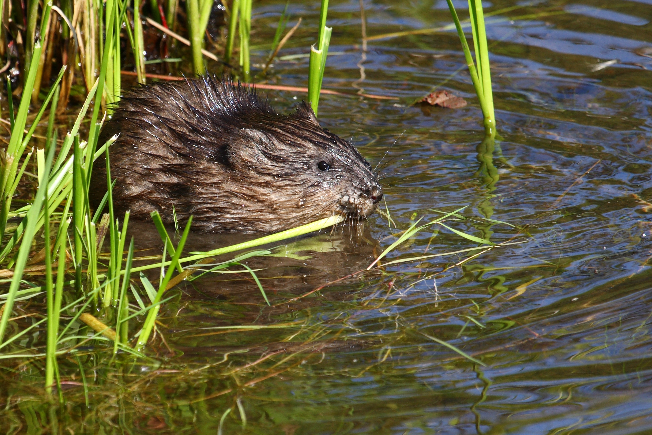 Muskrat (Ondatra zibethicus) feeding on aquatic vegetation, Cap Tourmente National Wildlife Area, Quebec, Canada